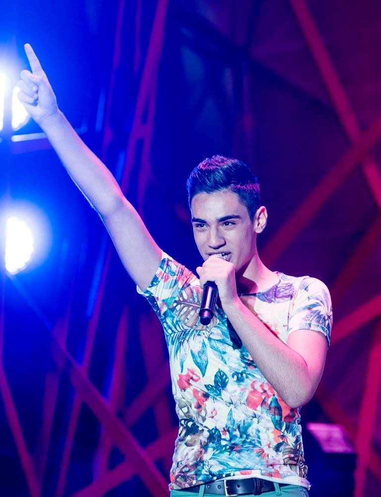 Sebastian Calleja singing at Konkors Kanzunetta Indipendenza 2016